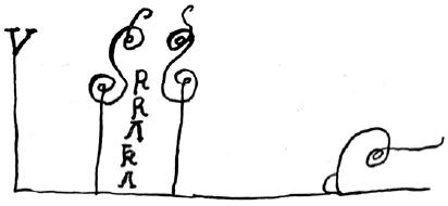 Signature of Urraca, future Queen of Leon and Castile, 1097